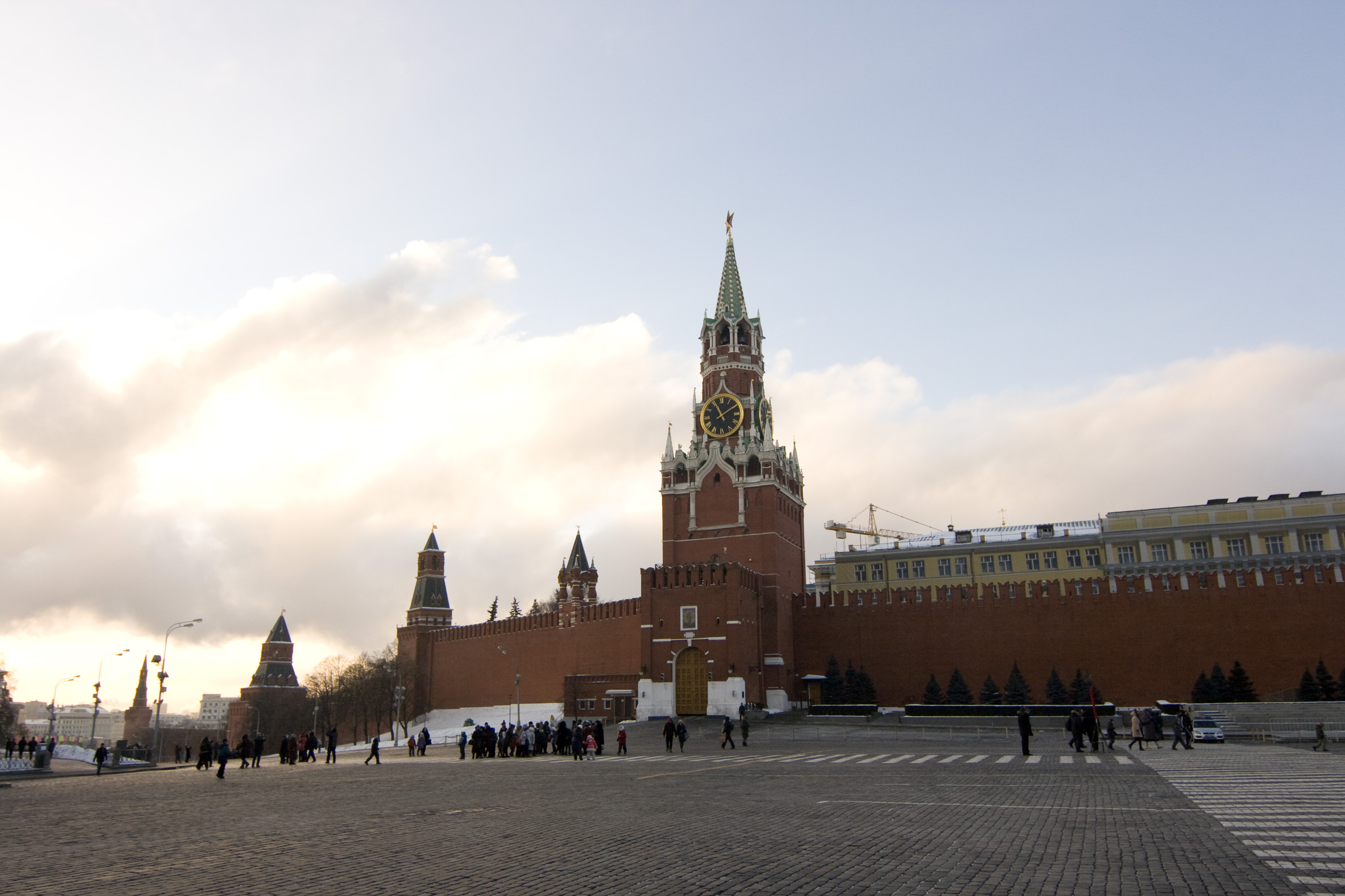 Spasskaya Tower